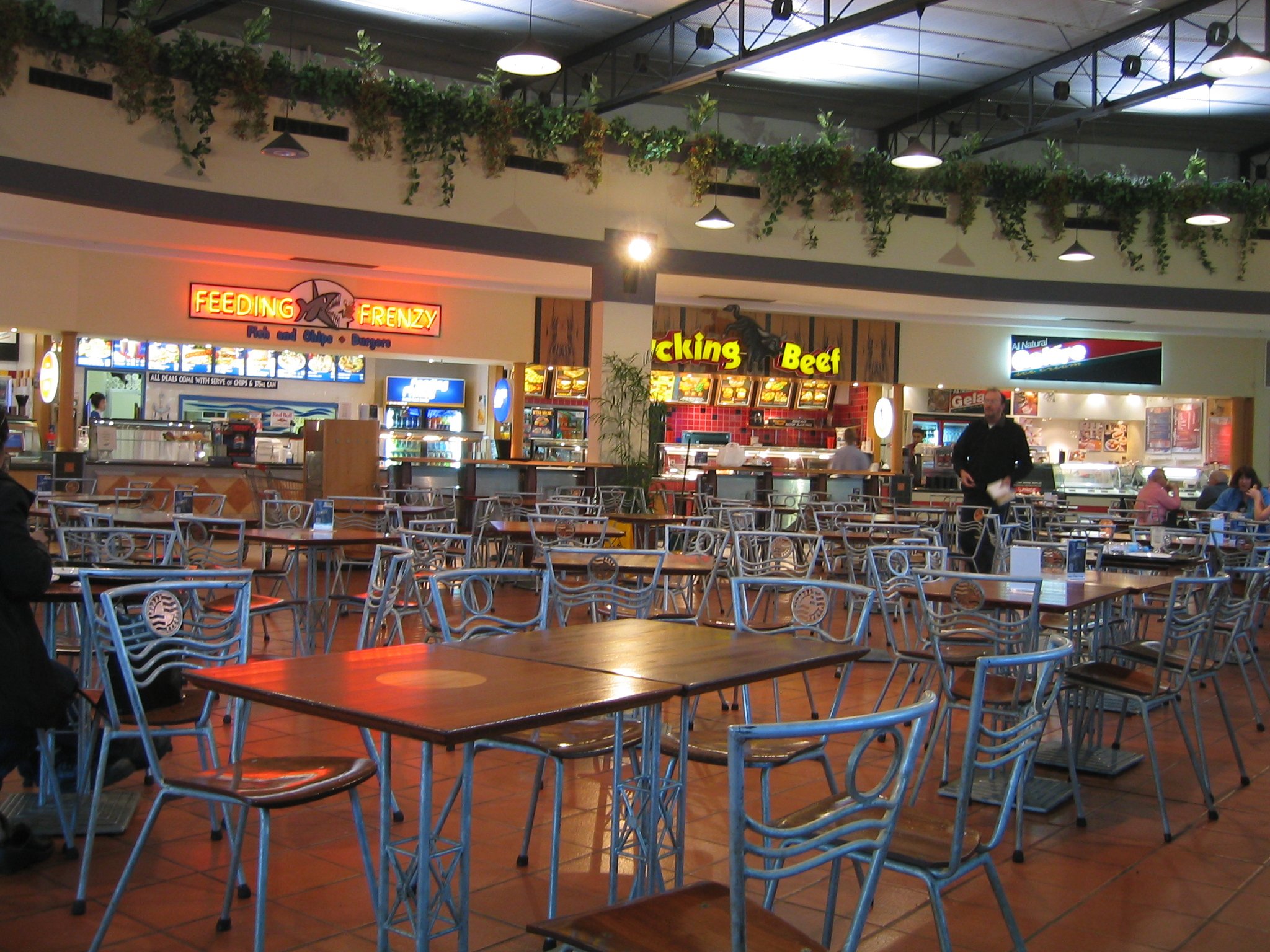 The food court in the Lakeside Joondalup Shopping City.